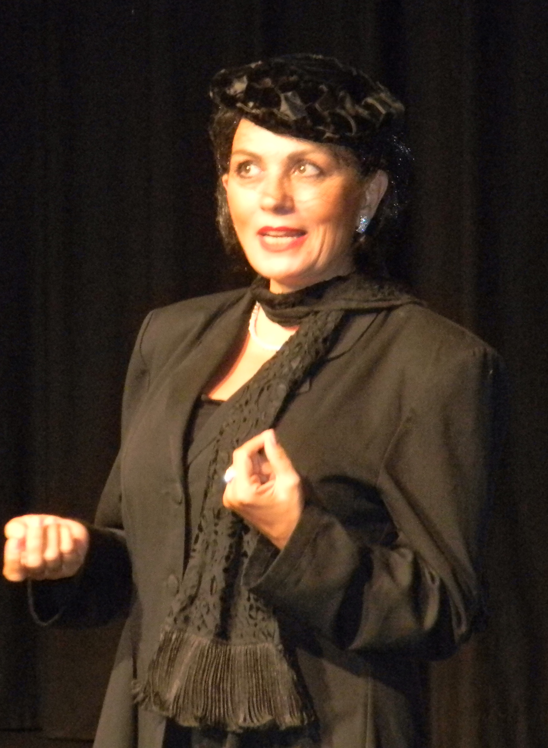 Serbian Actress Ljiljana Blagojevic in Kitchener. Acting in Comedy Neka mu je laka zemlja